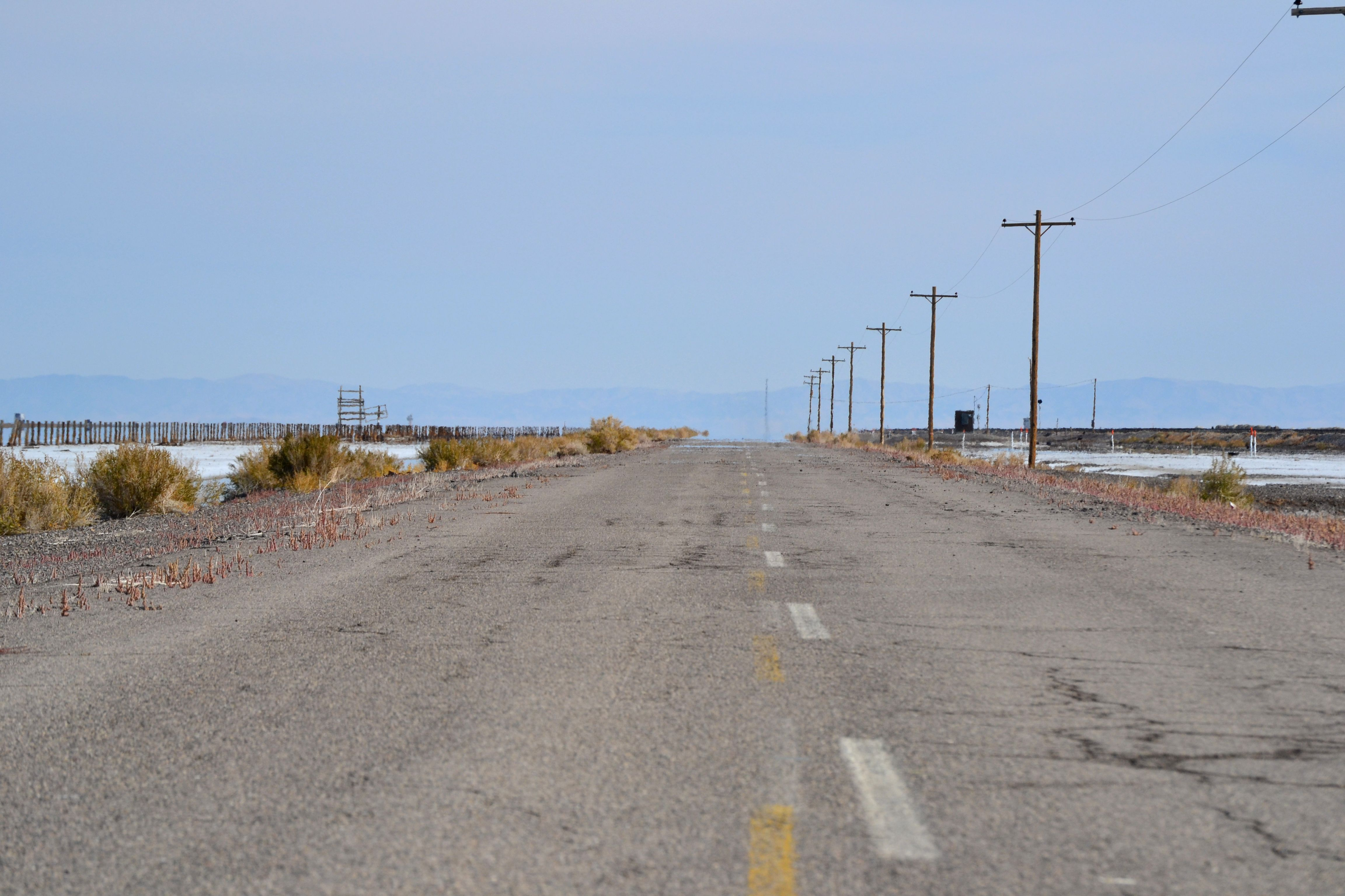 The Wendover Cut-off in the Great Salt Lake Desert near its eastern terminus. Original Caption: Look! The white lines have proven to be more durable than the yellow striping. The white lines predate the yellow ones; basically, the white striping served the purpose that the yellow stripes do today.